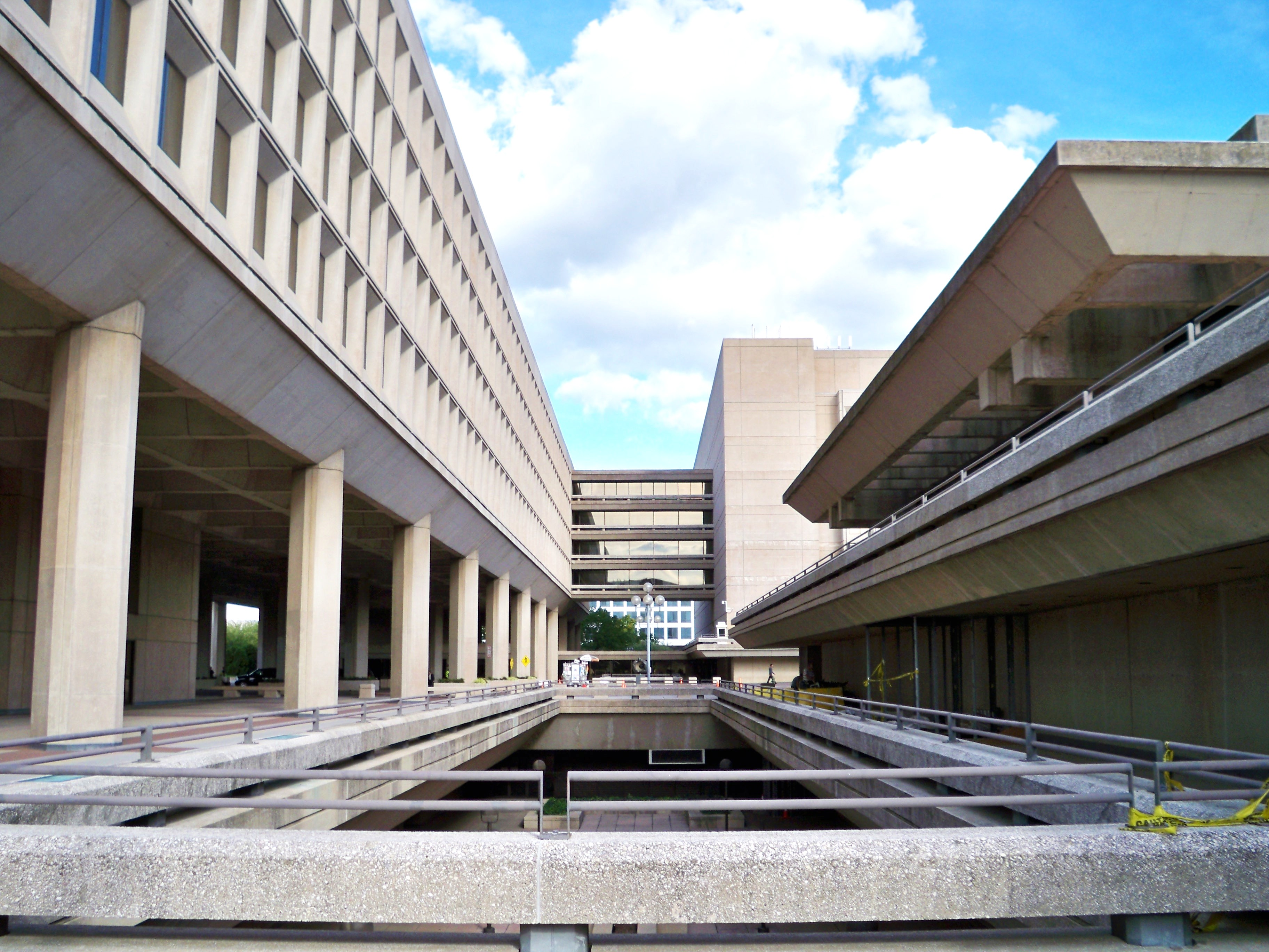 The Department of Energy complex, also known as the James Forrestal Building in Washington, DC.